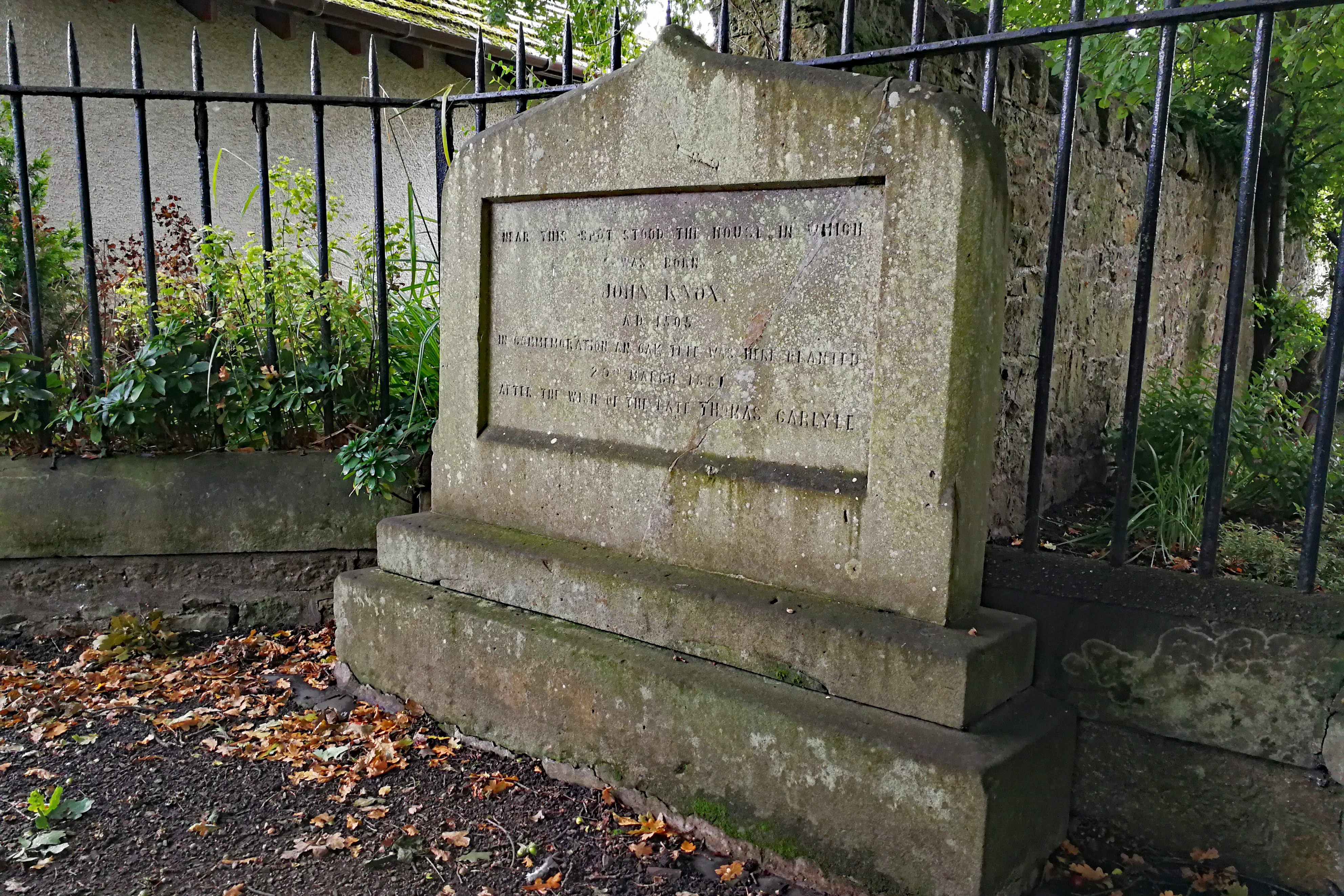 Birthplace of John Knox (Giffordgate, Haddington, East Lothian)